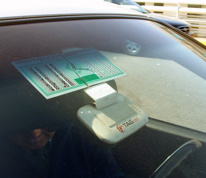 Vehicle transponder used in Santiago de Chile